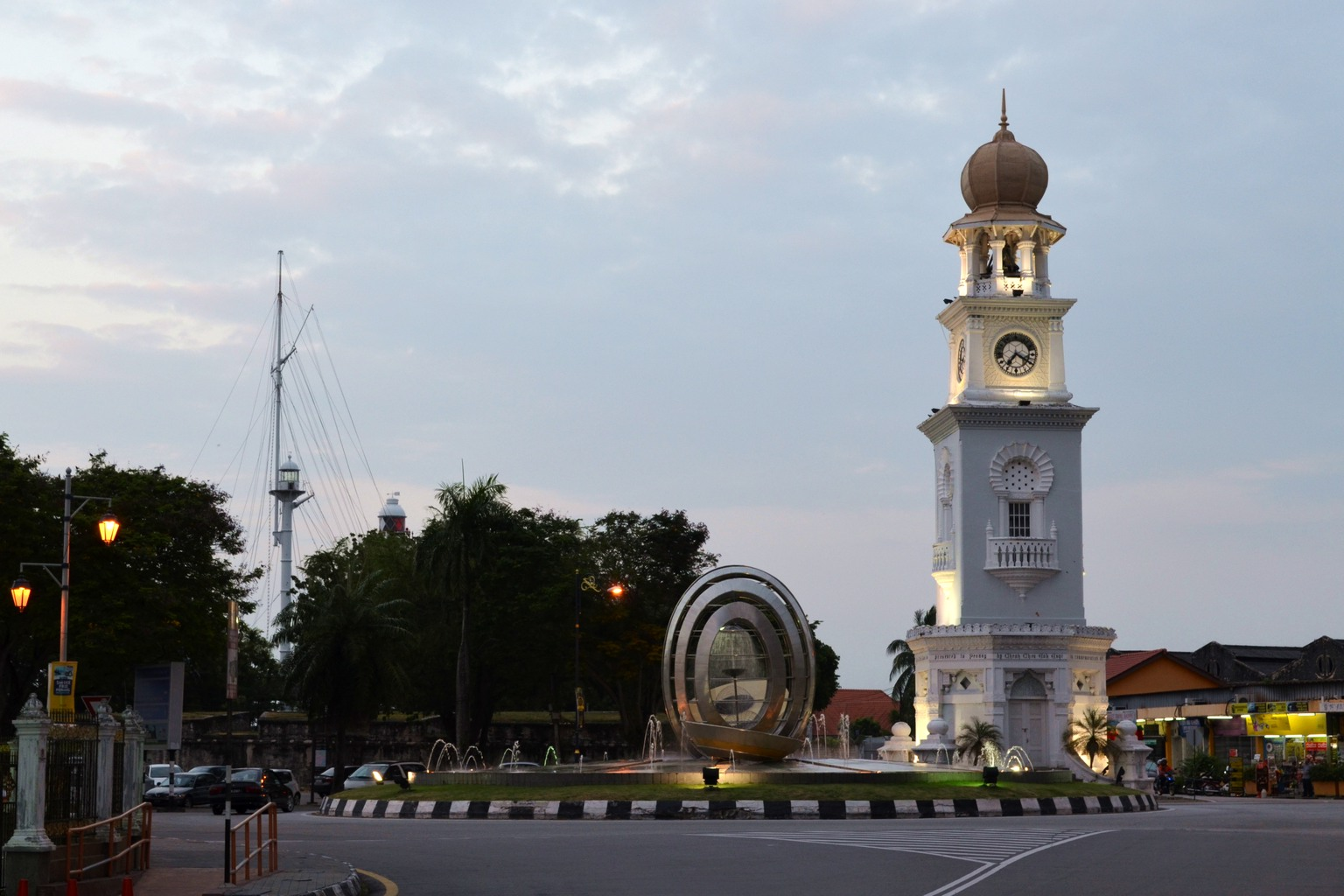 Evening view of the Penang Jubilee Clock Tower with Fort Cornwallis in the background.